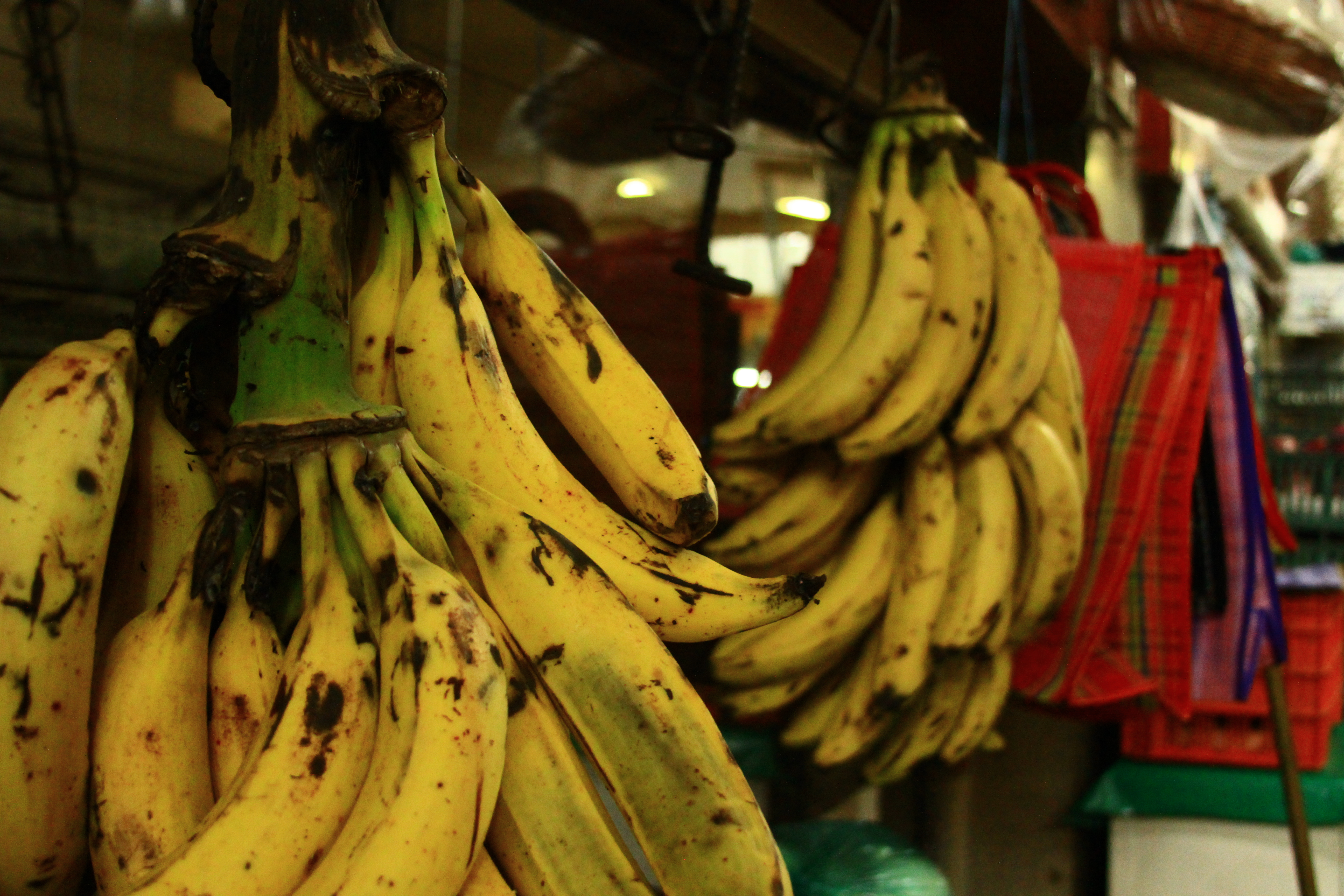 Normal view of two bananas raceme displayed in the Michoacán market in La Condesa neighborhood, Mexico City, Mexico